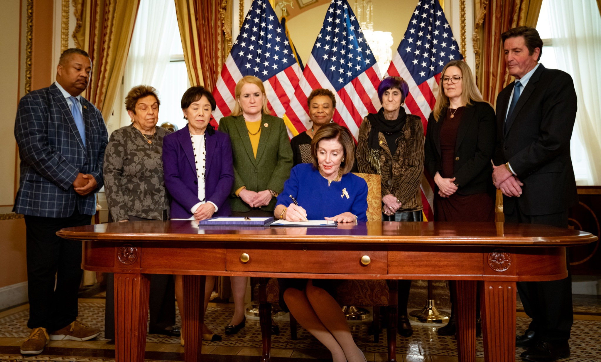 This #coronavirus emergency response package gives our government the resources it needs to confront this public health crisis – without stealing a dime from other critical initiatives. With my signature, it goes to the President’s desk.